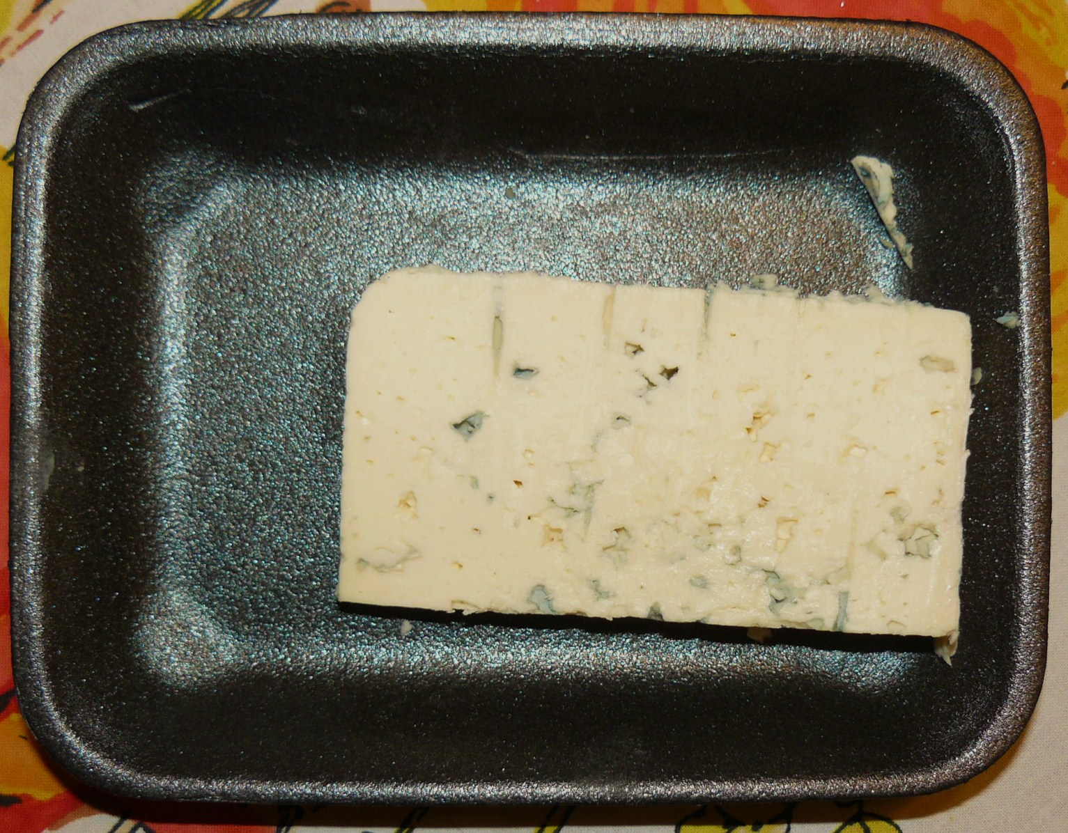 Edelpilzkase (Edelpilz Cheese).